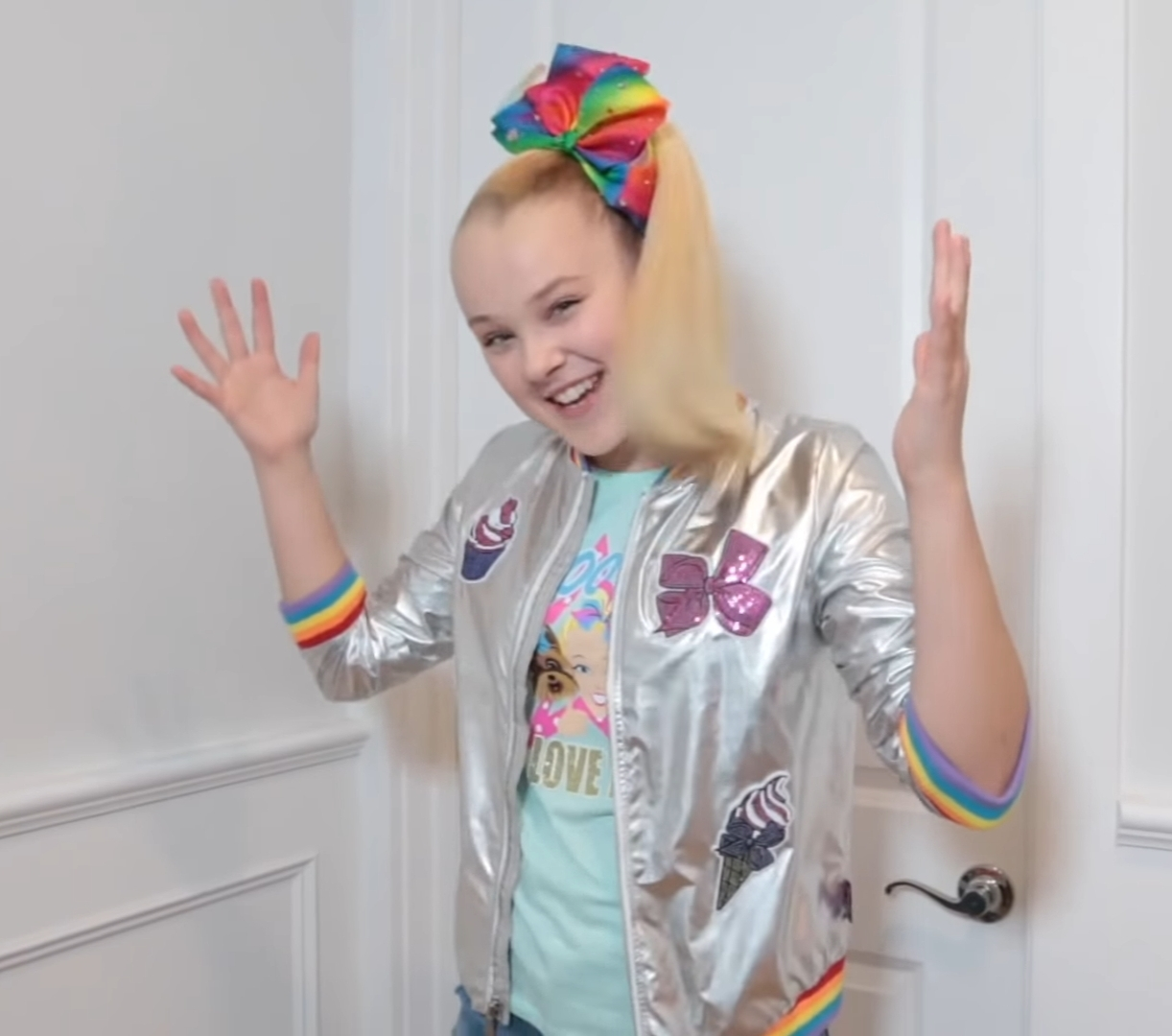 Screenshot from JoJo's video.